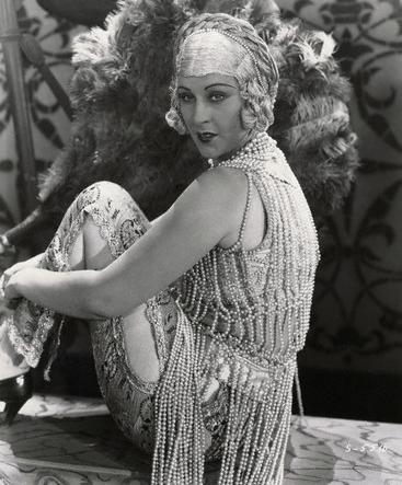 Studio publicity photo of the actress Anita Garvin (1906-1994) in 1923